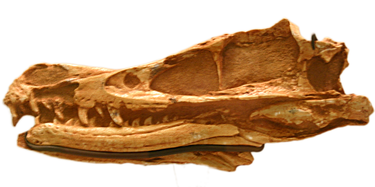 A photograph of AMNH 6515, the type specimen of Velociraptor mongoliensis. Note: This photograph was taken by ideonexus on Flickr and released under CC-BY-SA 2.0. I just modified it by cropping it, removing the background, and applying unsharp mask.